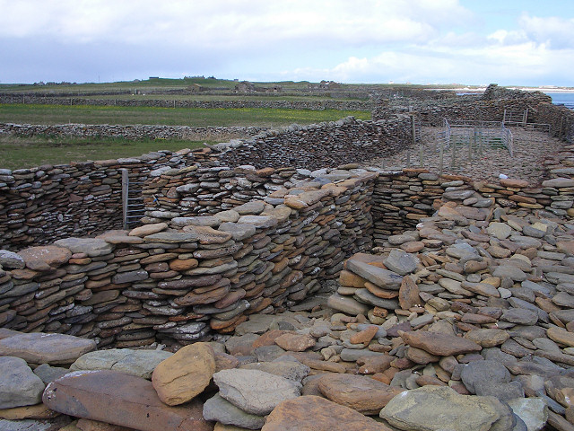 Sheep punds at Bride's Ness. There are sheep punds at several locations around the coast of North Ronaldsay. They are used when the sheep are rounded up off the beach.